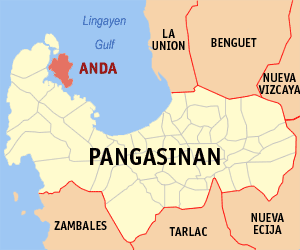 Map of Pangasinan showing the location of Anda